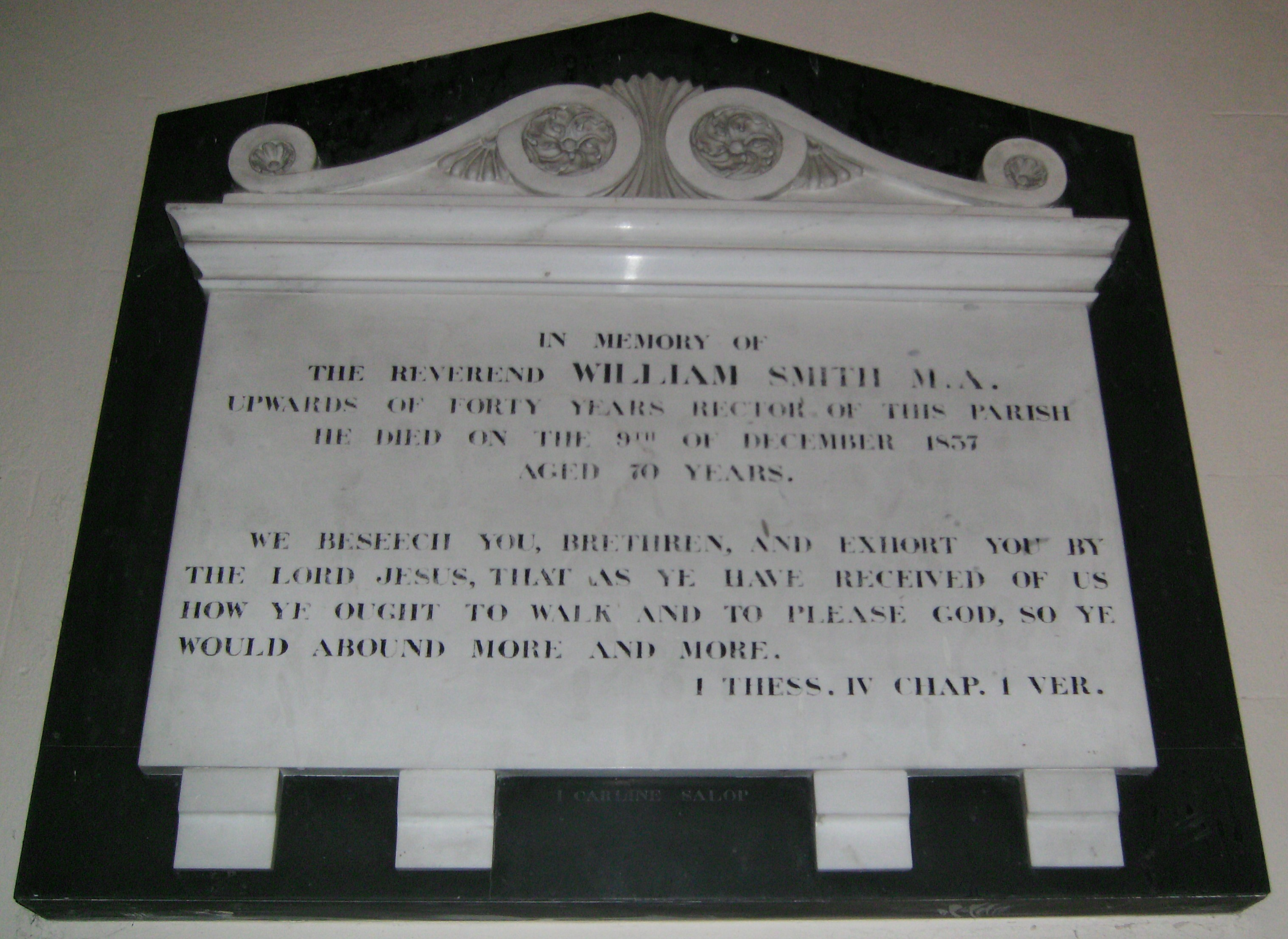 Memorial to Rev William Smist, St. Giles church, Badger, Shropshire, England.